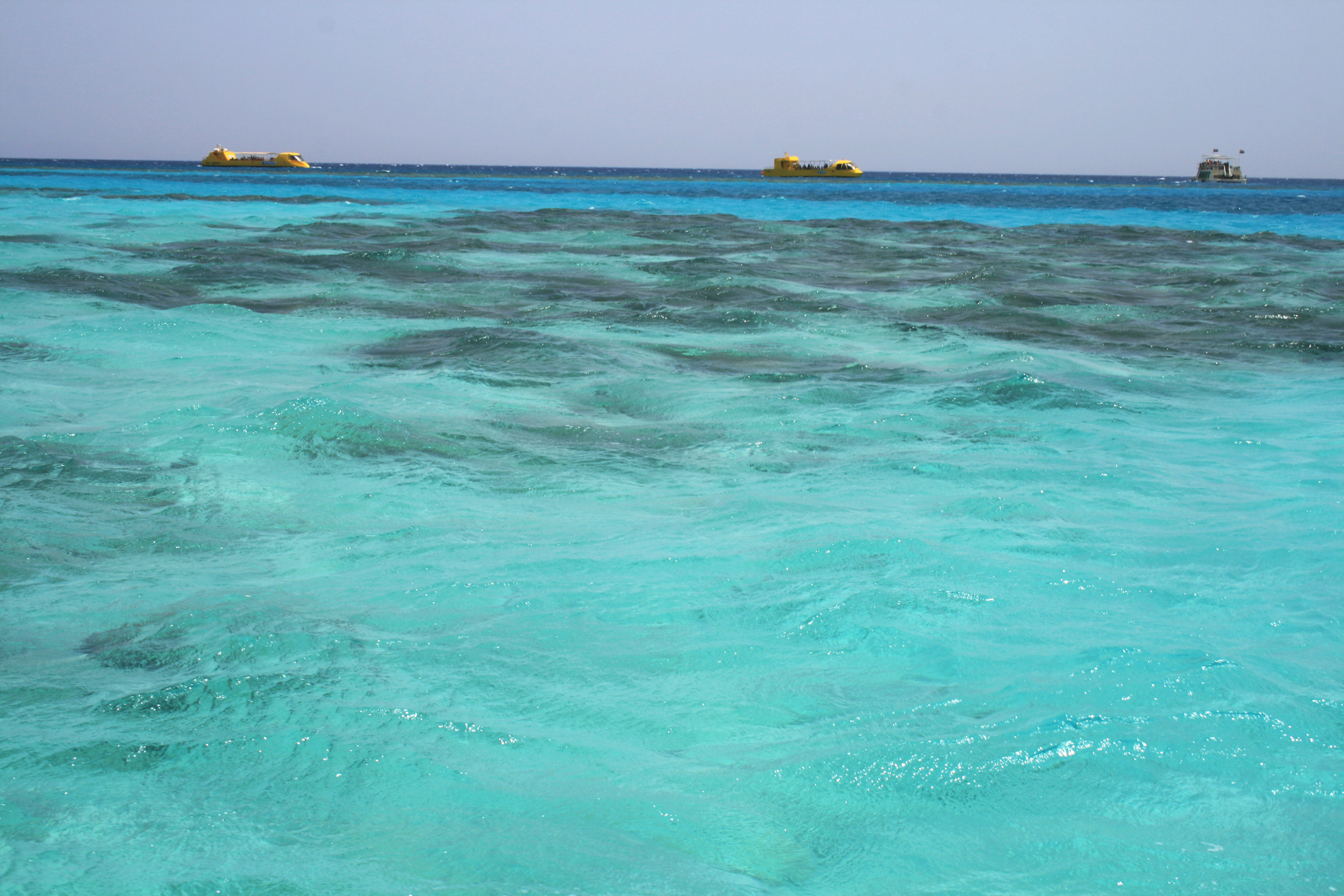 Boat trip in Hurghada, Egypt Česky: Výlet na moře v malém motorovém člunu v egyptské Hurghadě